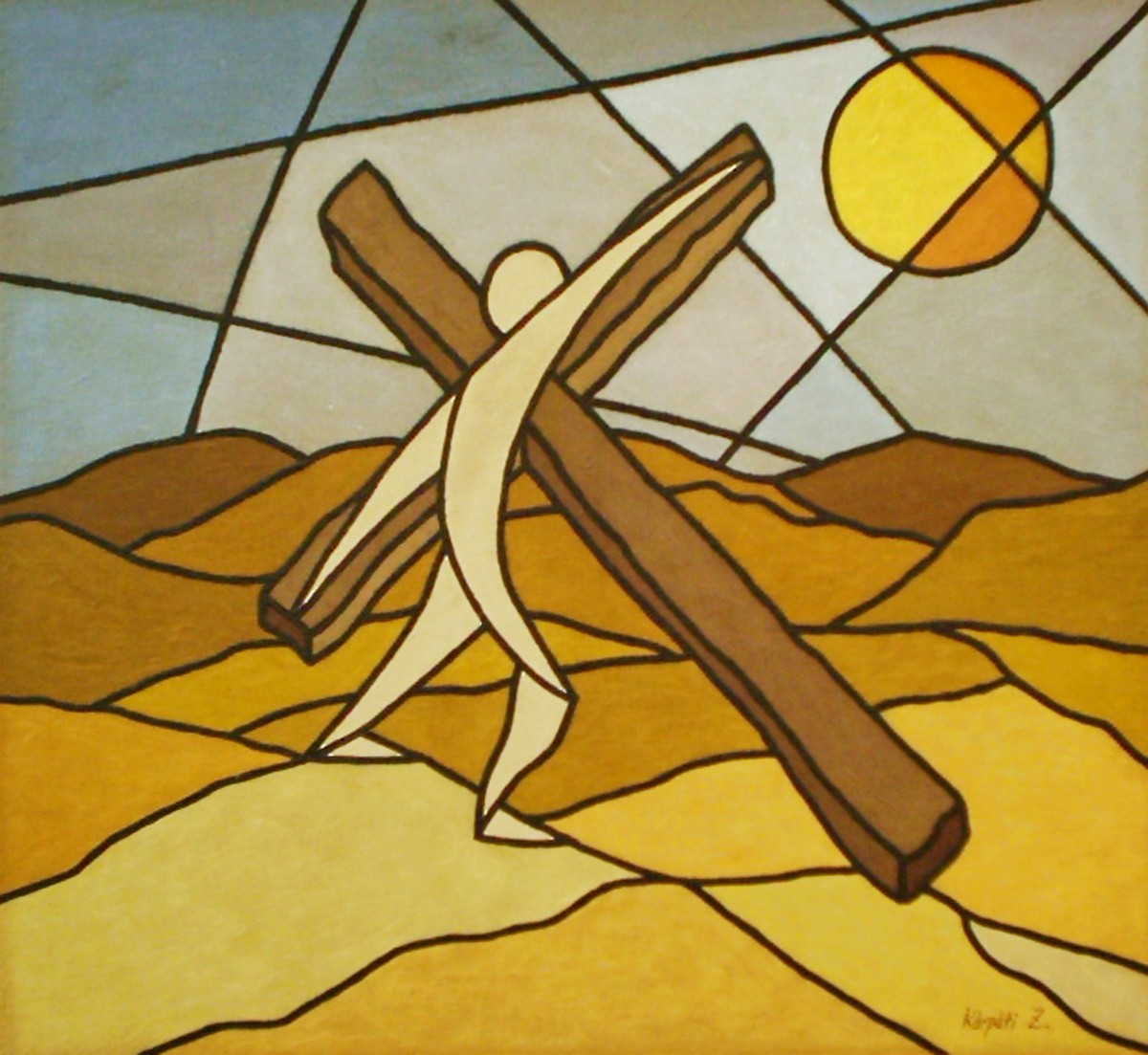 Zoltán Kárpáti Cross-bearer